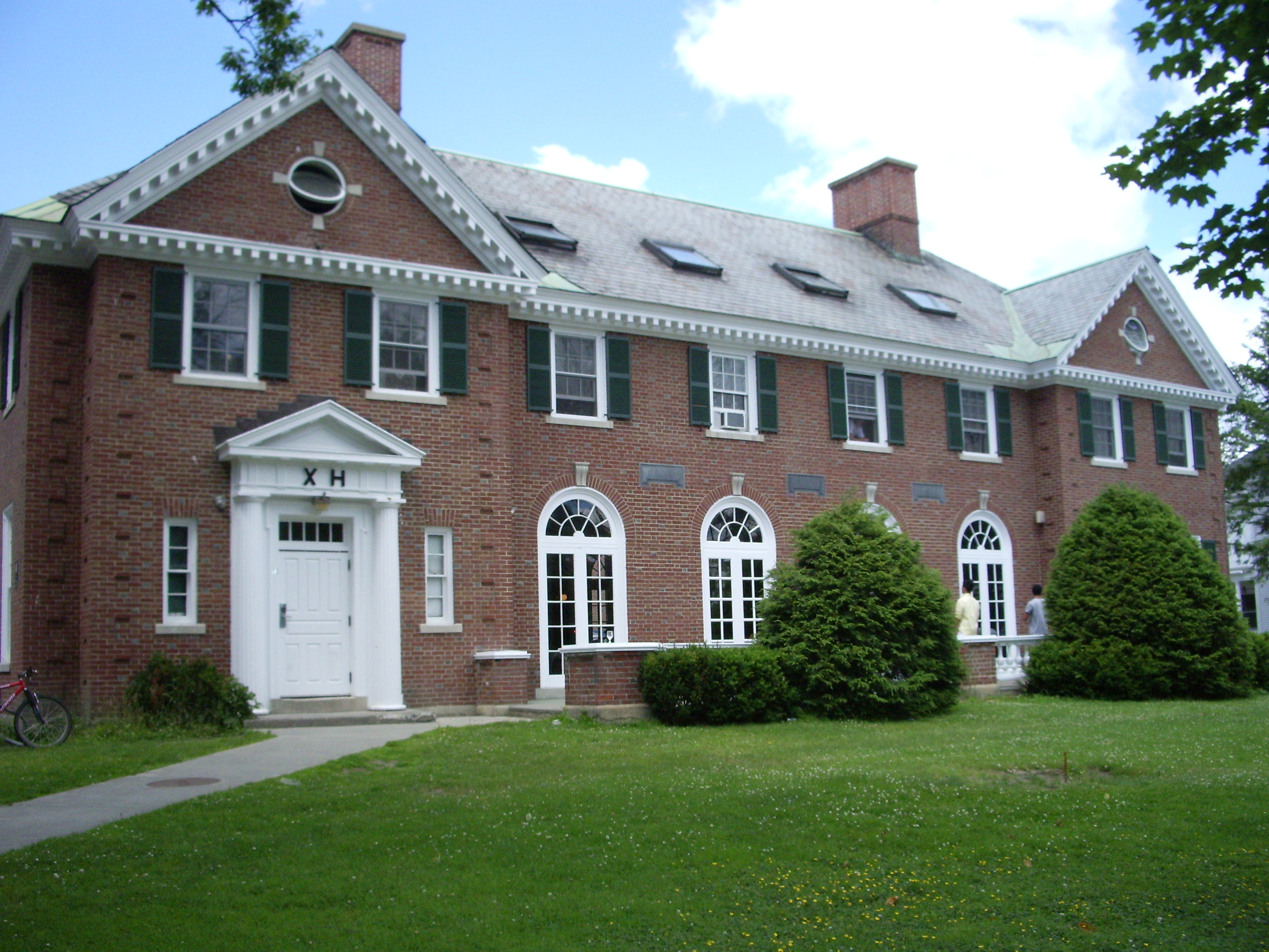 Photograph of Chi Heorot at the campus of Dartmouth College in Hanover, New Hampshire.